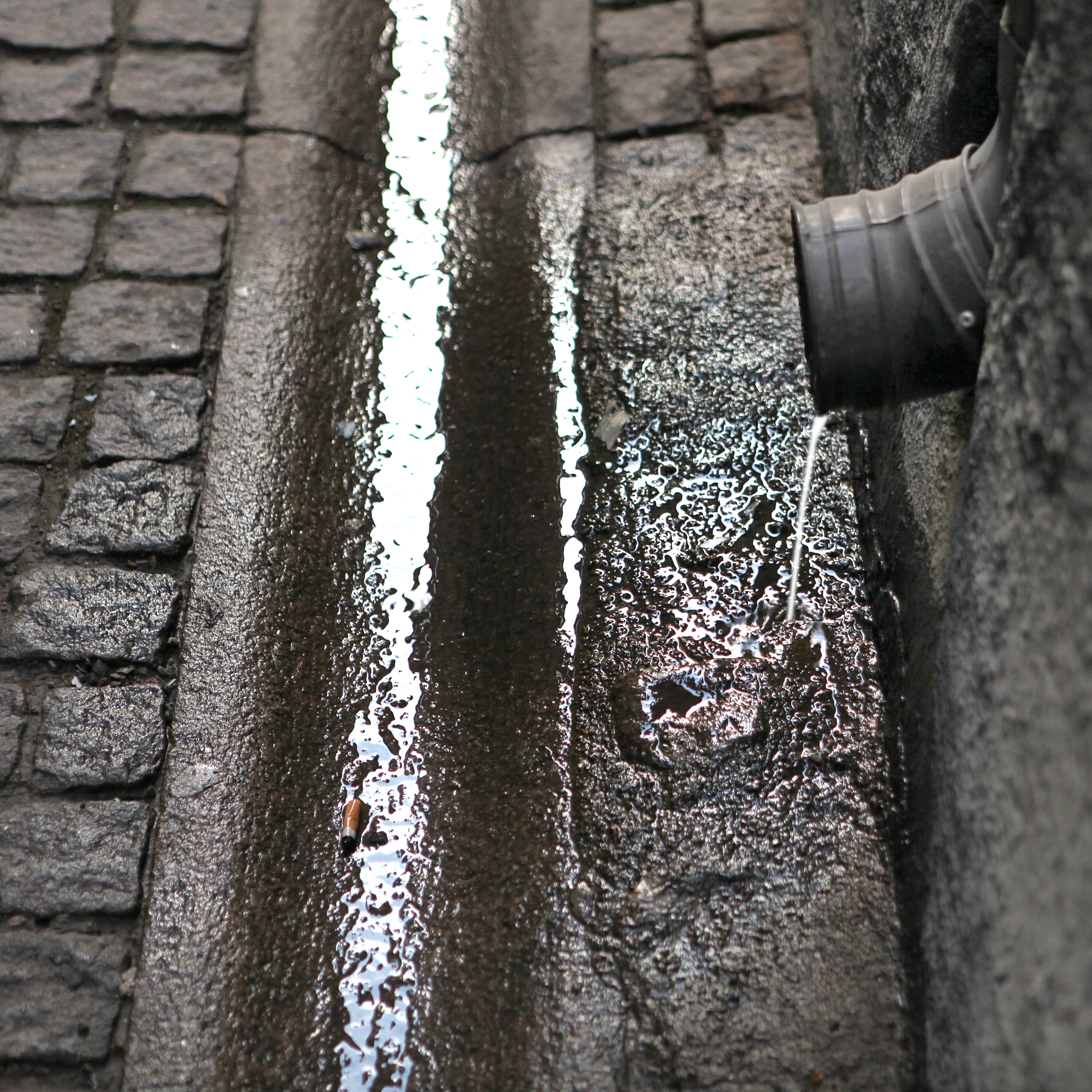 Street gutter in Old Town Stockholm